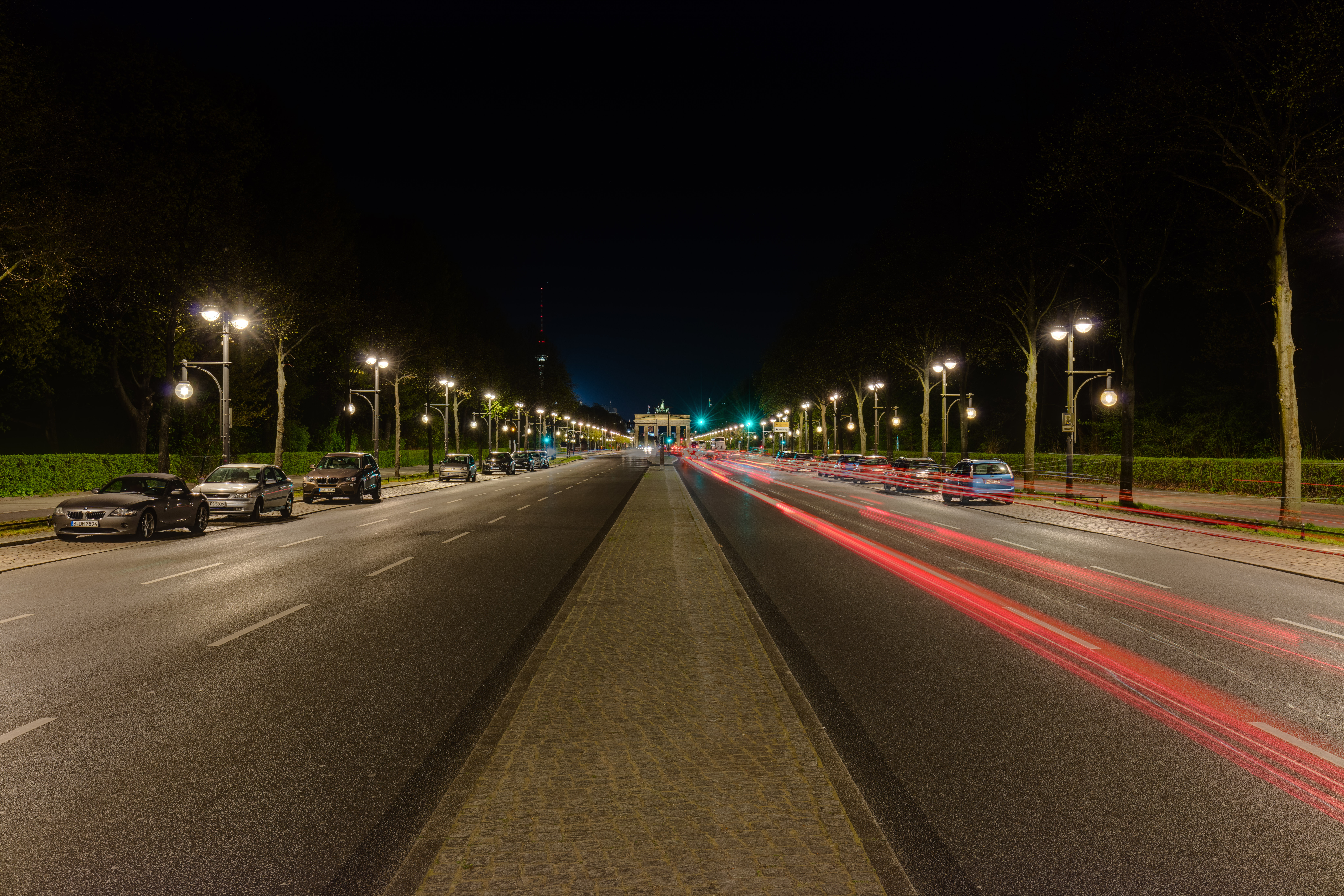 June 17th Street, Berlin, Germany